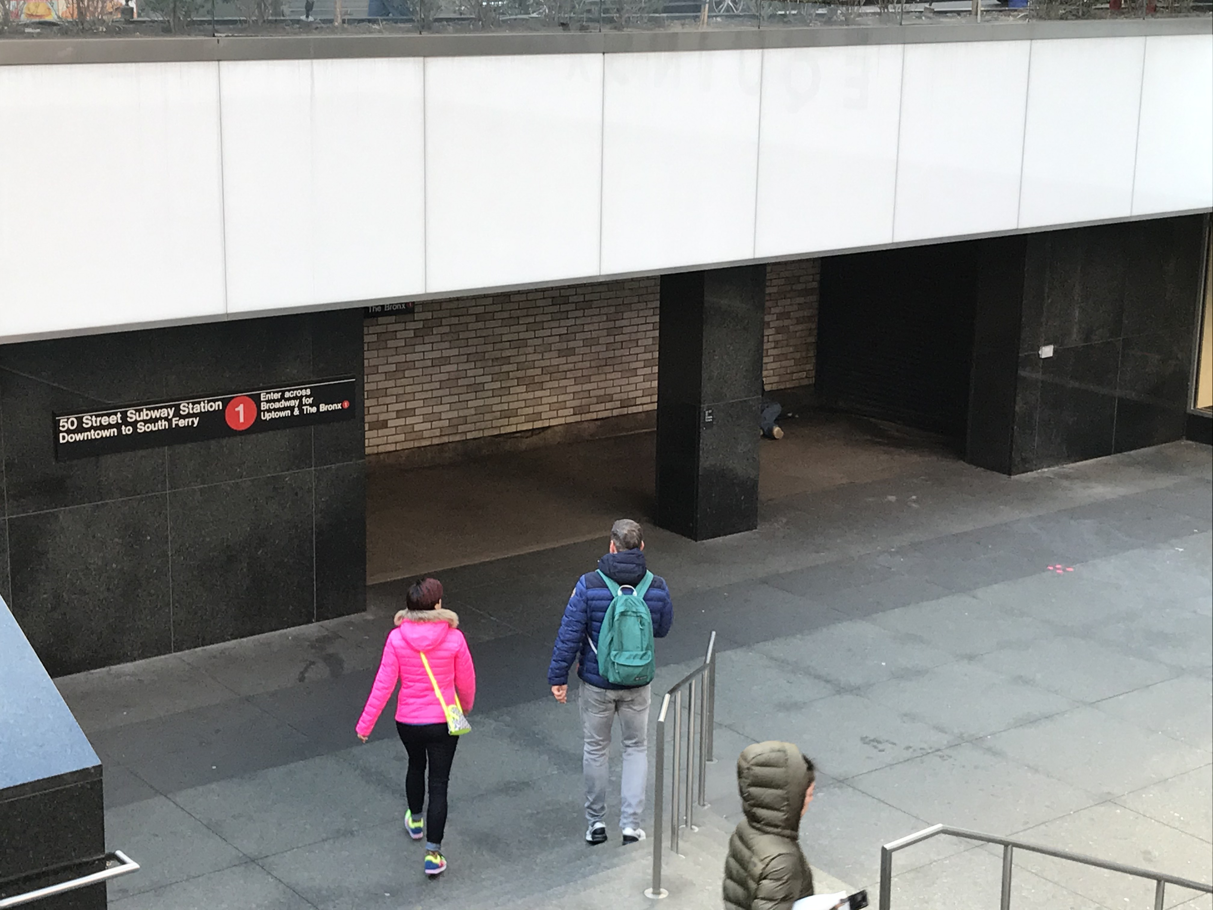 An entrance to the 50th Street IRT station, within a sunken courtyard at the Paramount Plaza. To the right is a closed passageway leading to the 50th Street IND station on 8th Avenue.